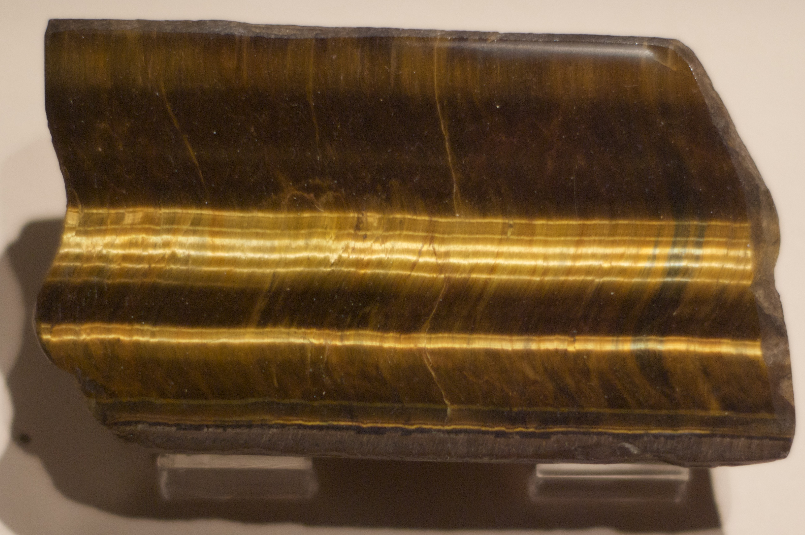 Tiger's eye. (Crocidolite replaced by silica), from South Africa.